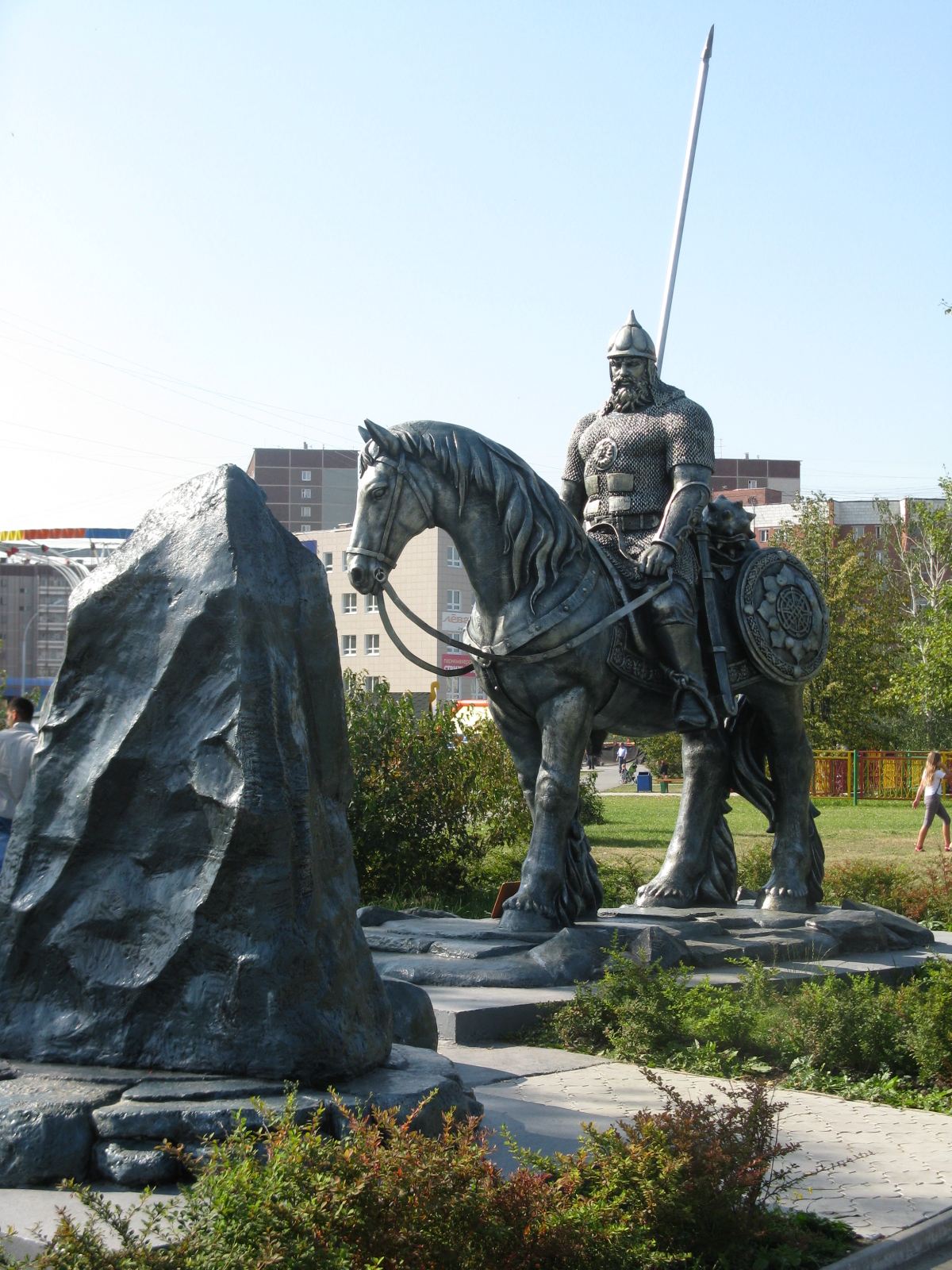 Ilya Muromets. A sculptural composition. Tagansky Park, Ekaterinburg, 2011.